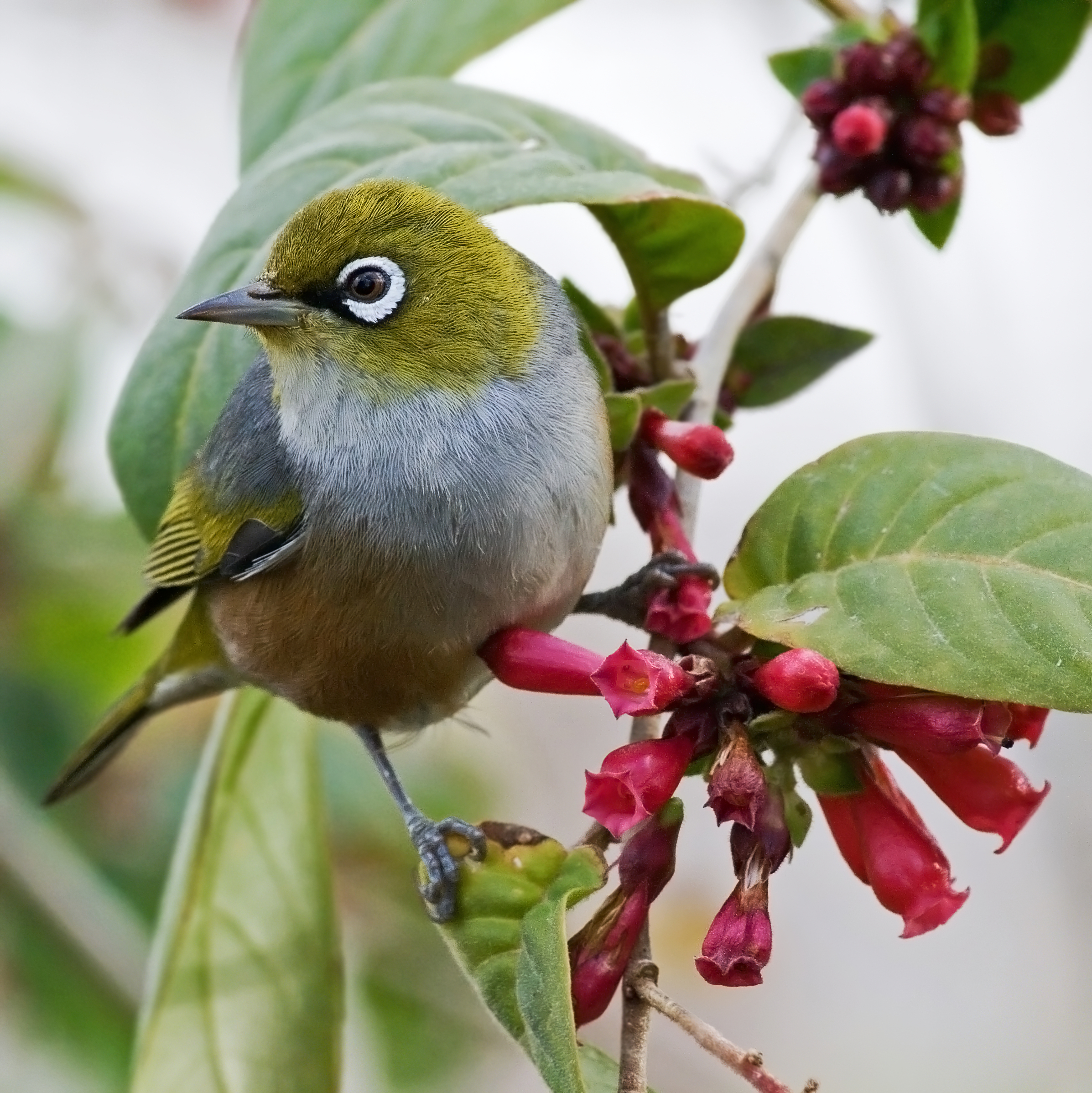 A Silvereye (Zosterops lateralis) perched on a blooming Cestrum species in Tasmania on a branch in Hobart, Tasmania, Australia